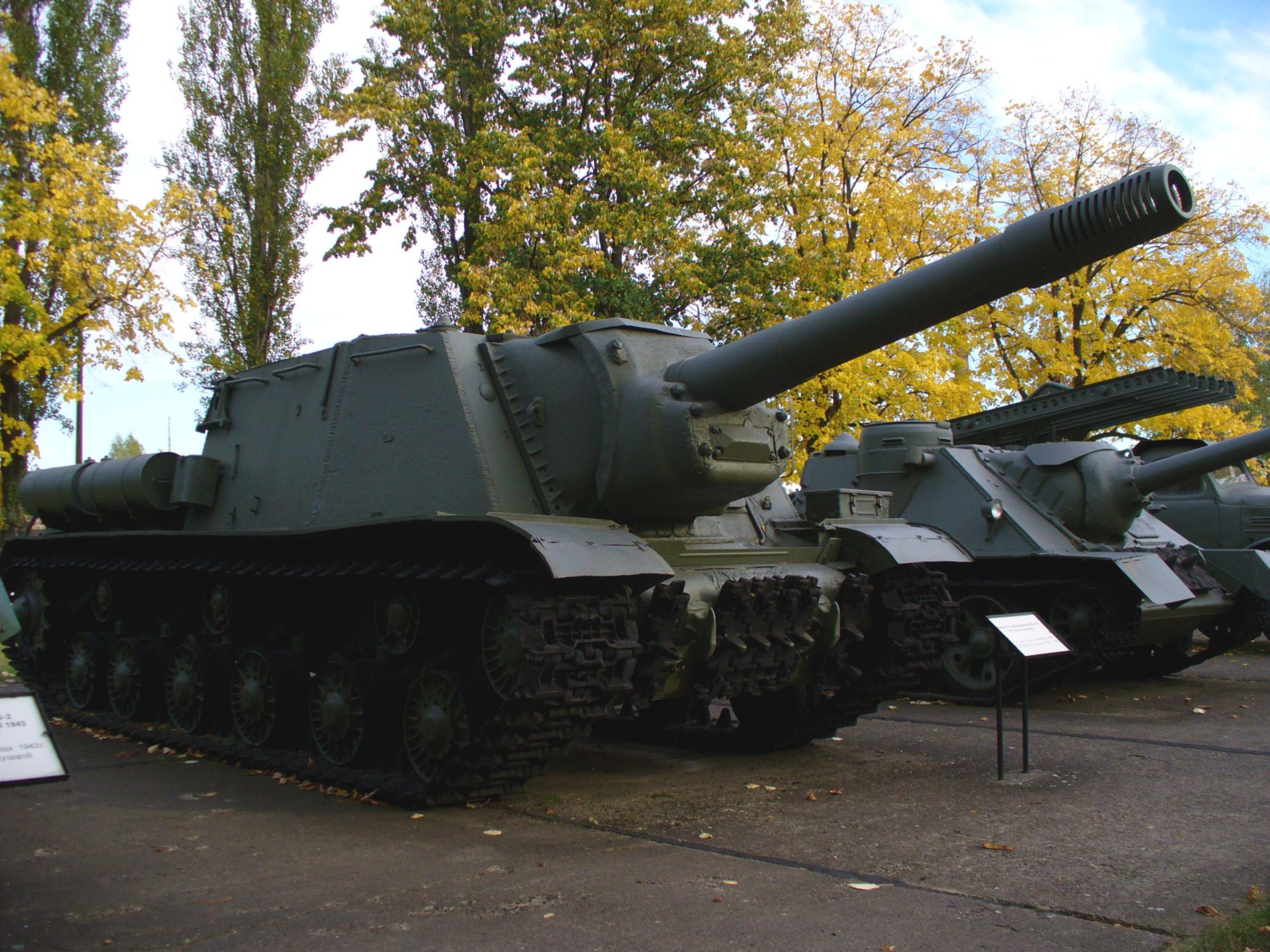 ISU-152, Russian self-propelled gun during WW 2. On display in Berlin-Karlshorst